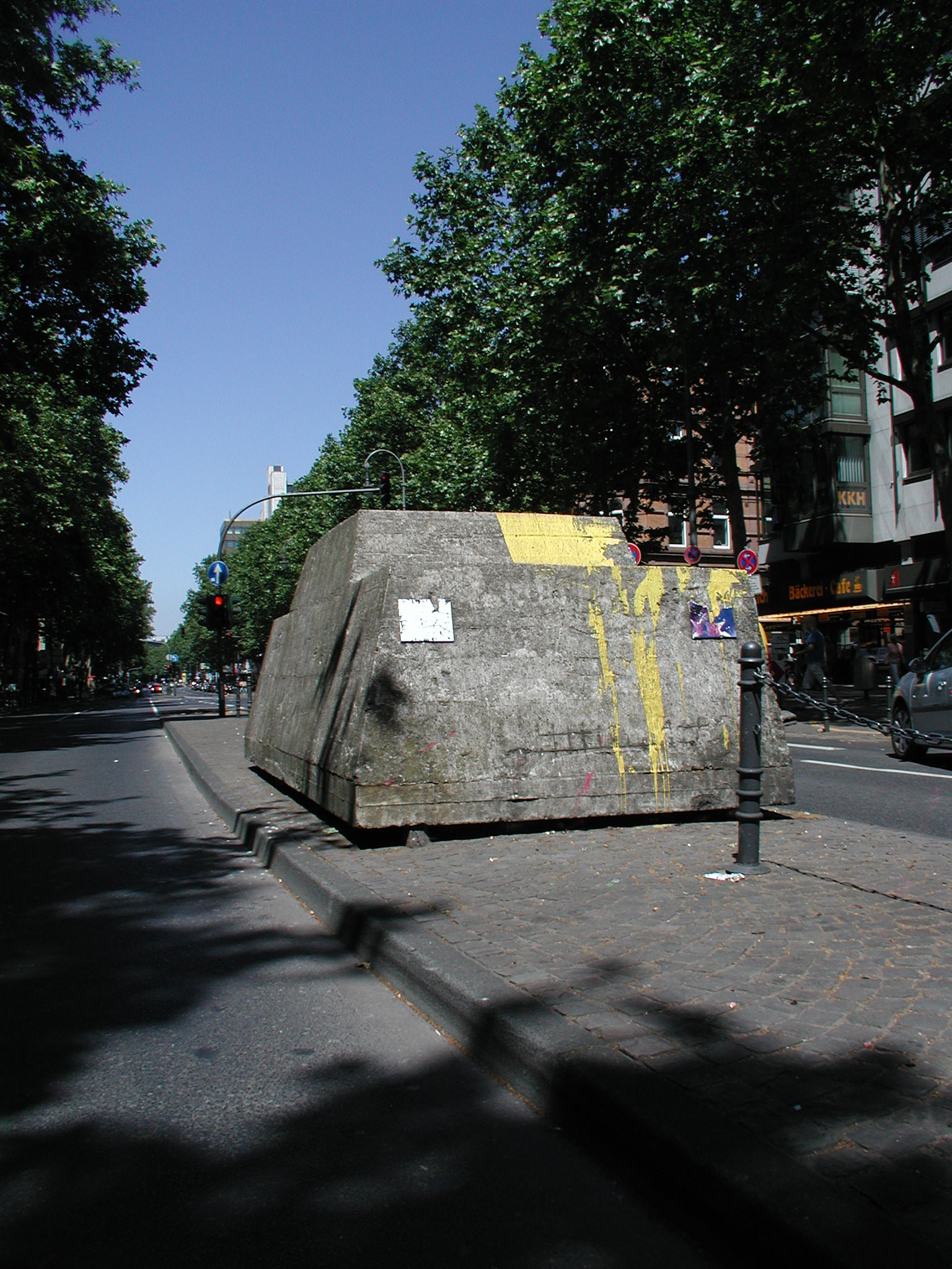 Cologne, "dormant traffic". Skulptur Wolf Vostell 1969